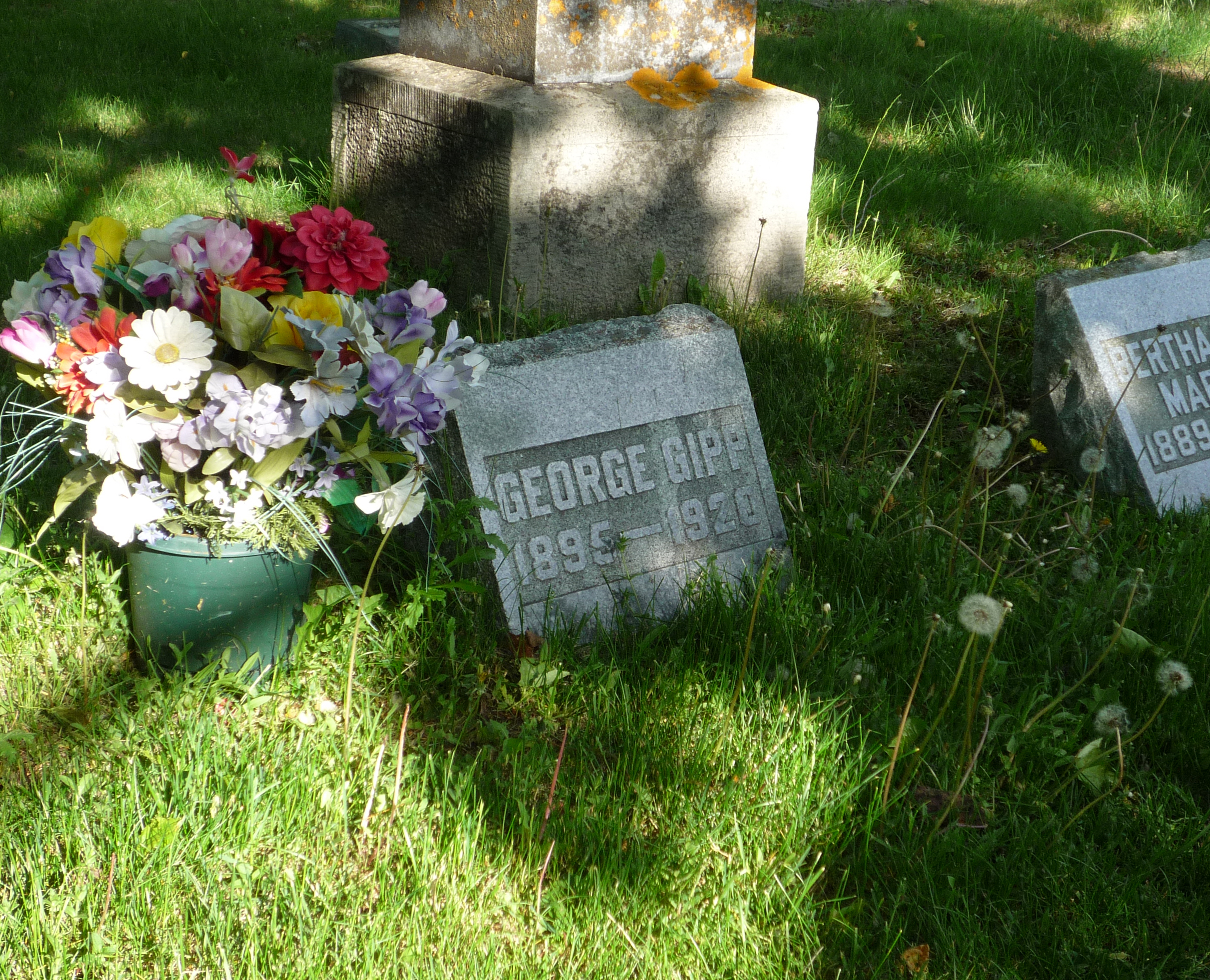 The grave of George Gipp, Lake View Cemetery, Calumet, Michigan, USA.